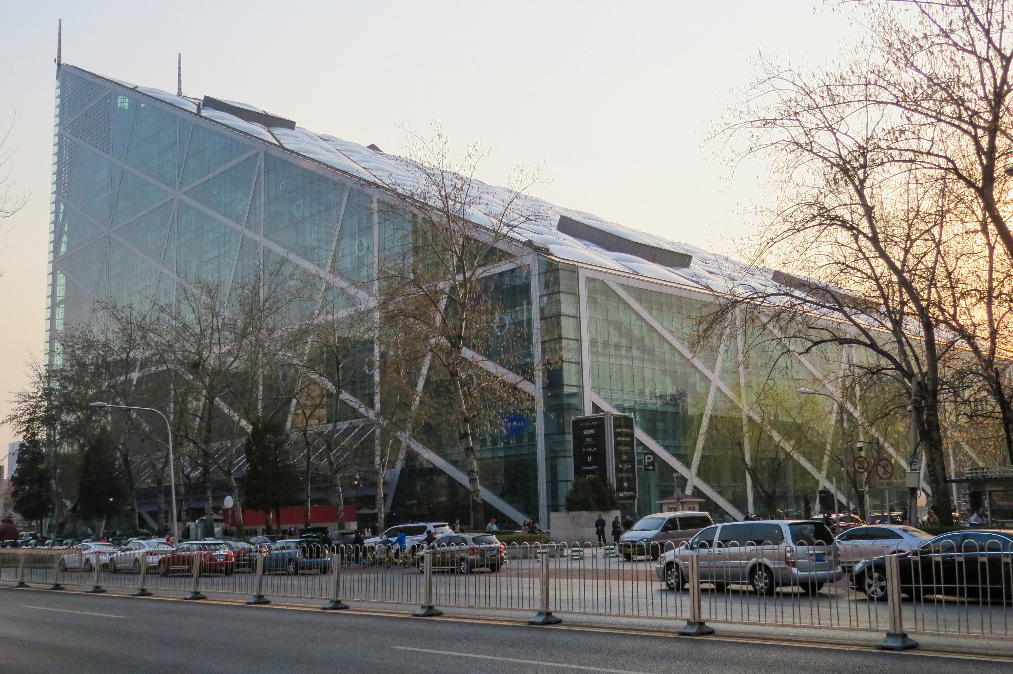 Some hundred steps from the exit D2 of Dongdaqiao Station.